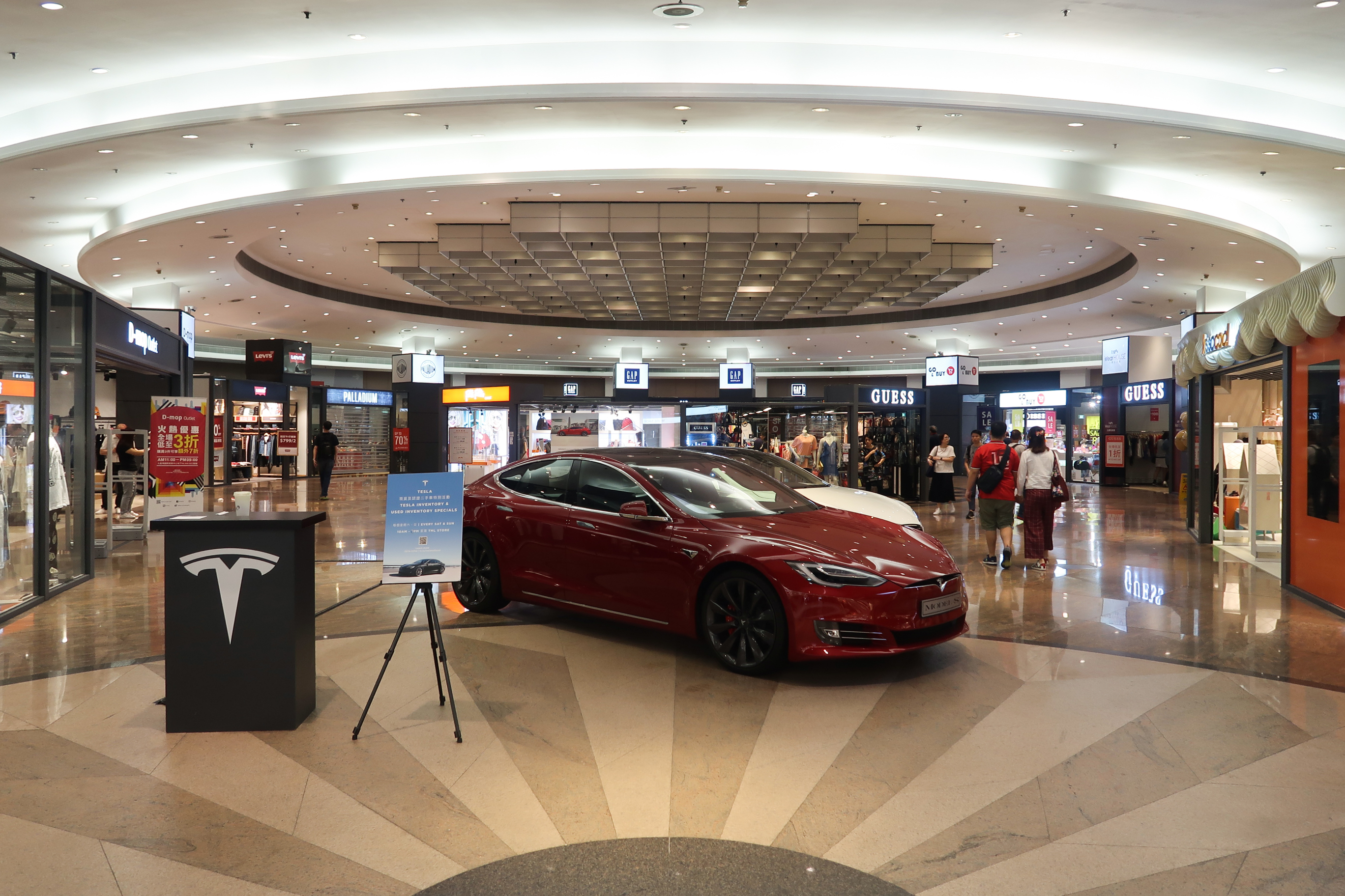 E-Max WearHouse